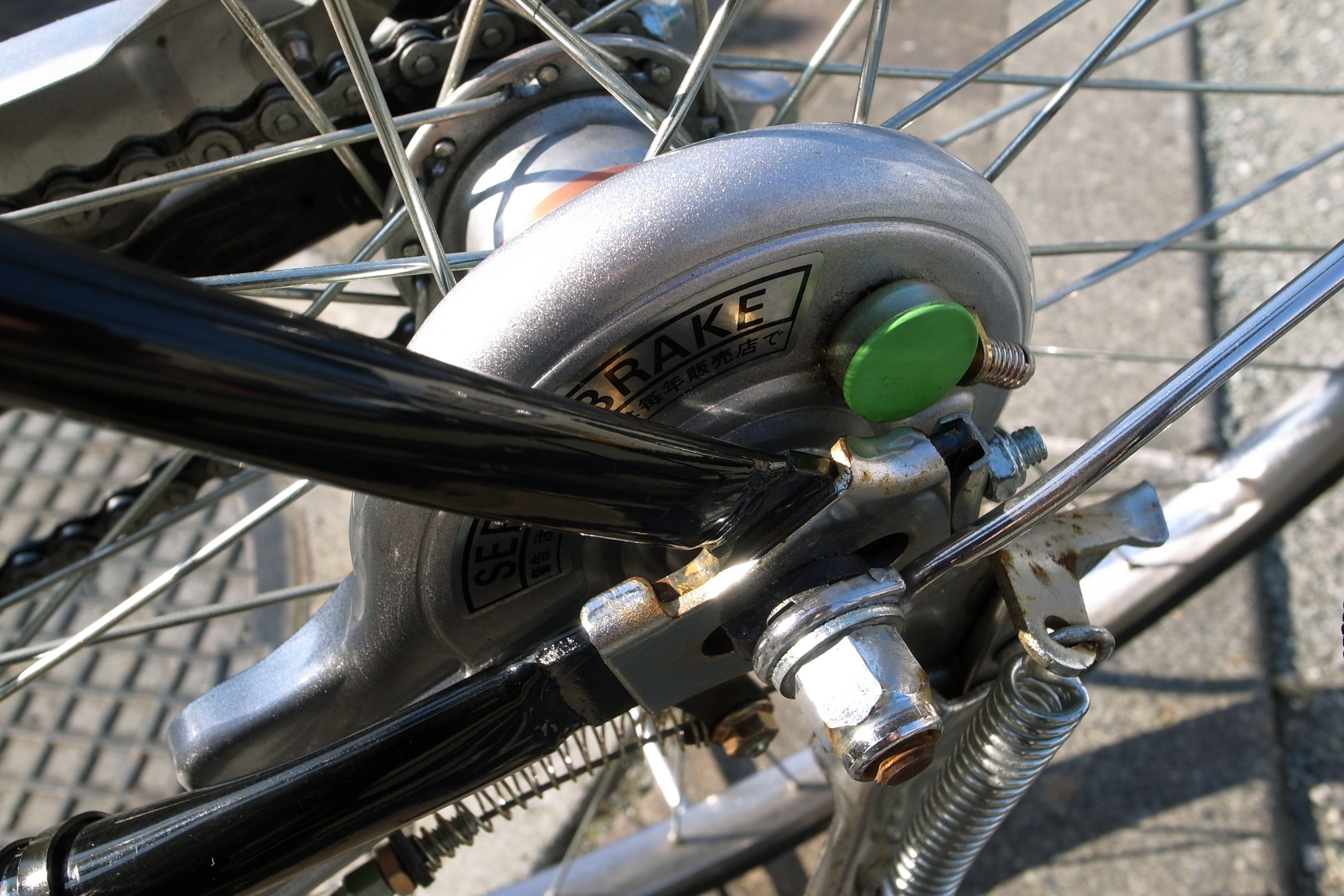 Servo Brake